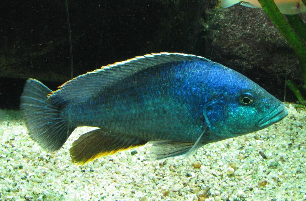 Nimbochromis polystigma, mature male in breeding dress